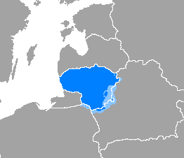 Lithuanian language Majority Minority